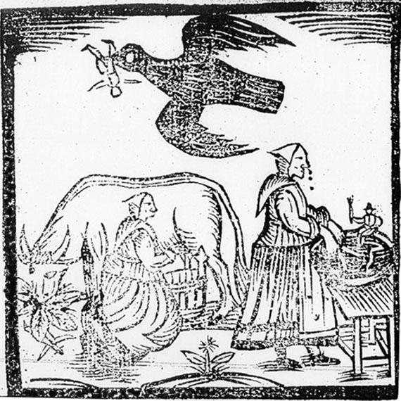 tom thumb illo.